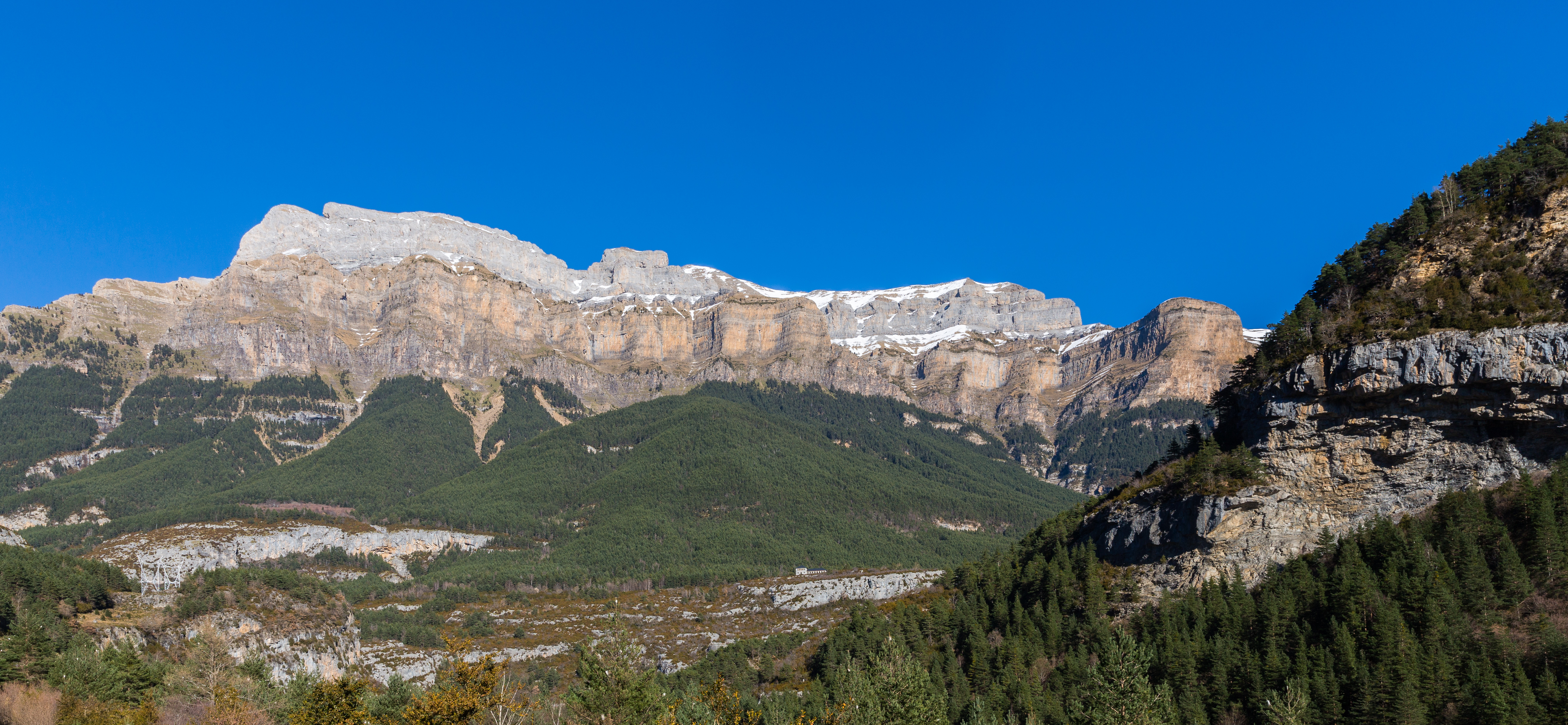 Ordesa y Monte Perdido National Park, Huesca, Spain